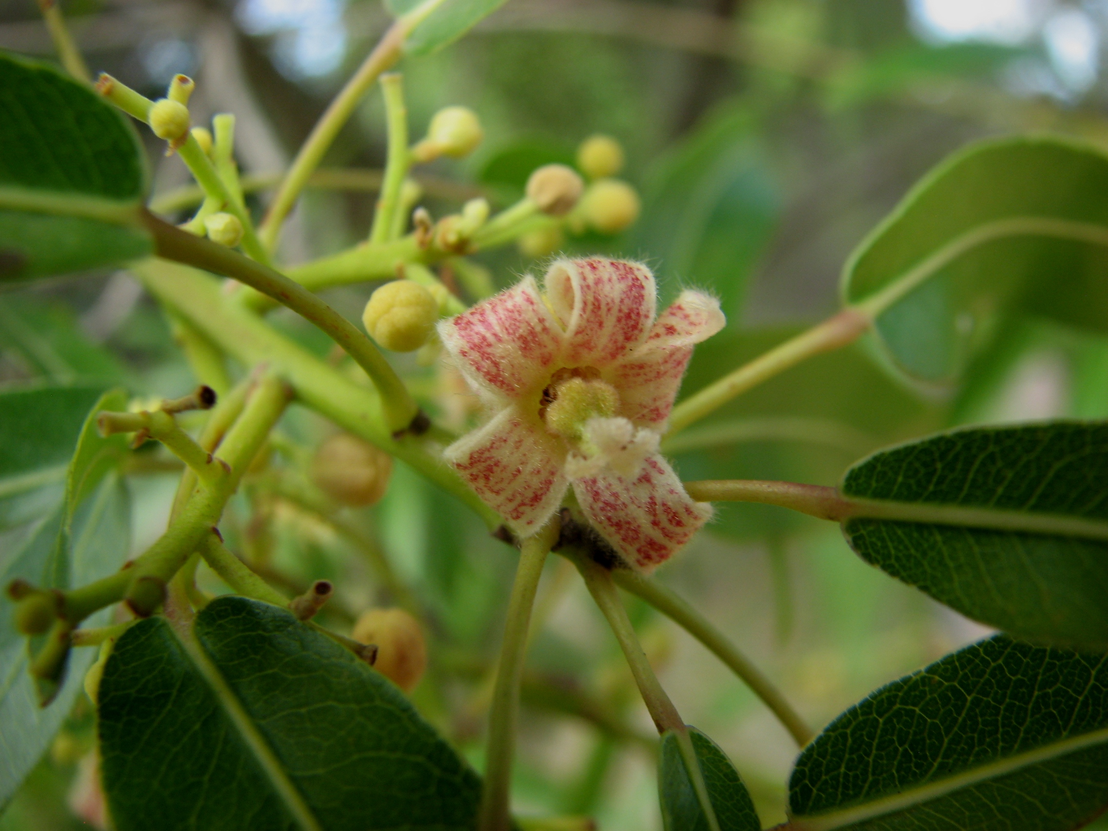 Brachychiton rupestris (cultivated, labelled) flower, Royal Botanic Gardens Melbourne, Australia